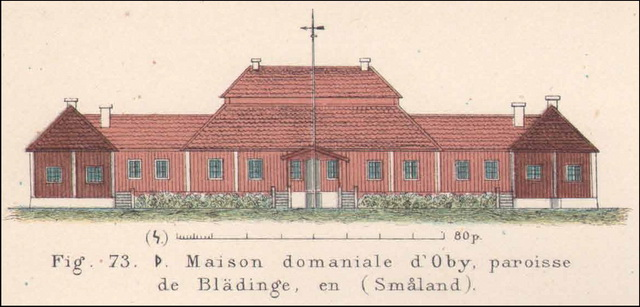 Oby manor, Blädinge, Alvesta, Småland, Sweden.